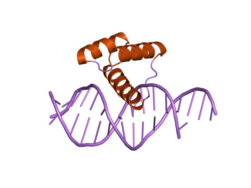 Cartoon representation of the molecular structure of protein registered with 1ig7 code.